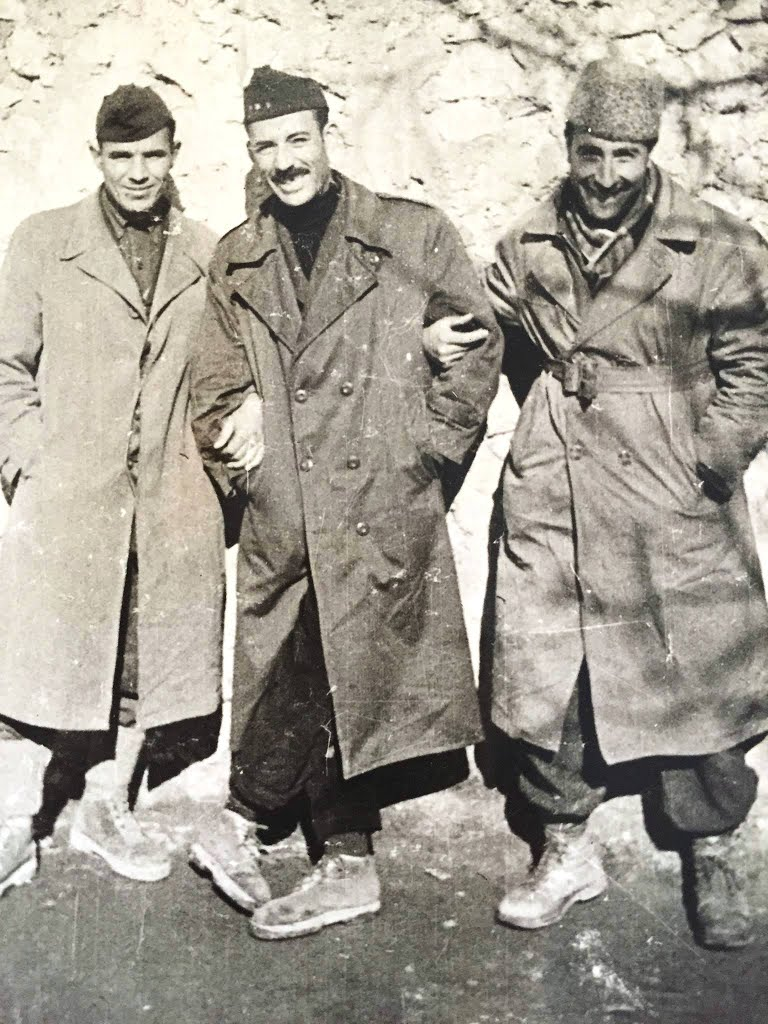 Mohamed Lamouri & Amirouche Ait Hamouda & Ali N'mer